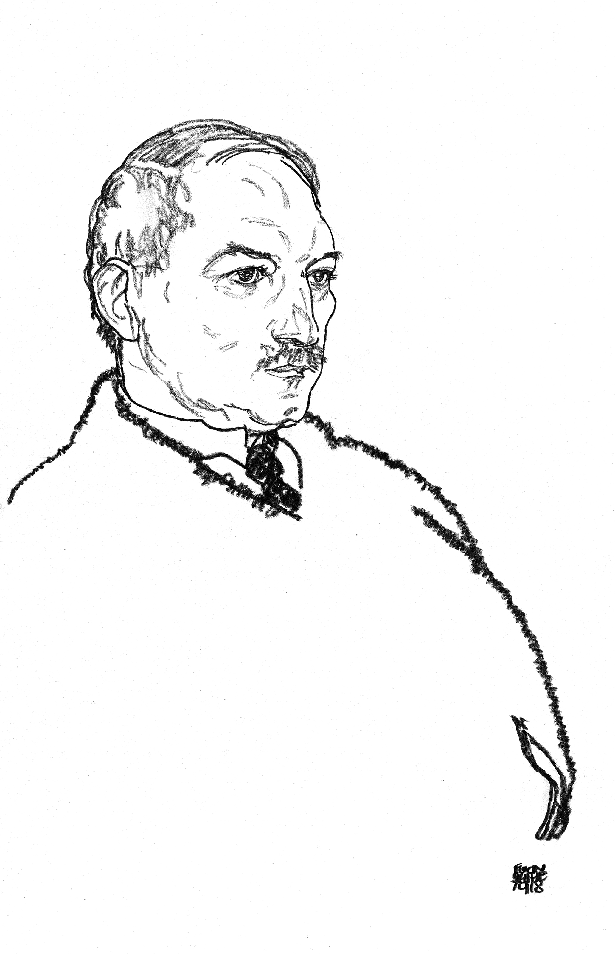 August Lederer charcoal on paper 46.1 x 29.6 cm signed b.r: EGON / SCHIELE / 1918